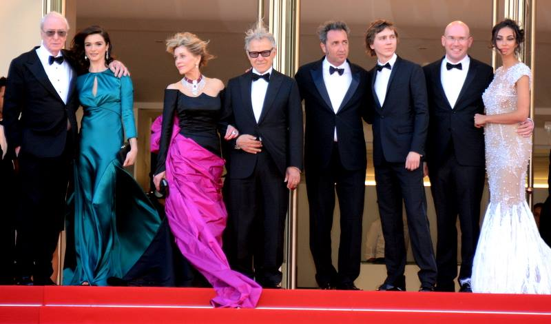 Director and stars of "Youth" at the 2015 Cannes film festival